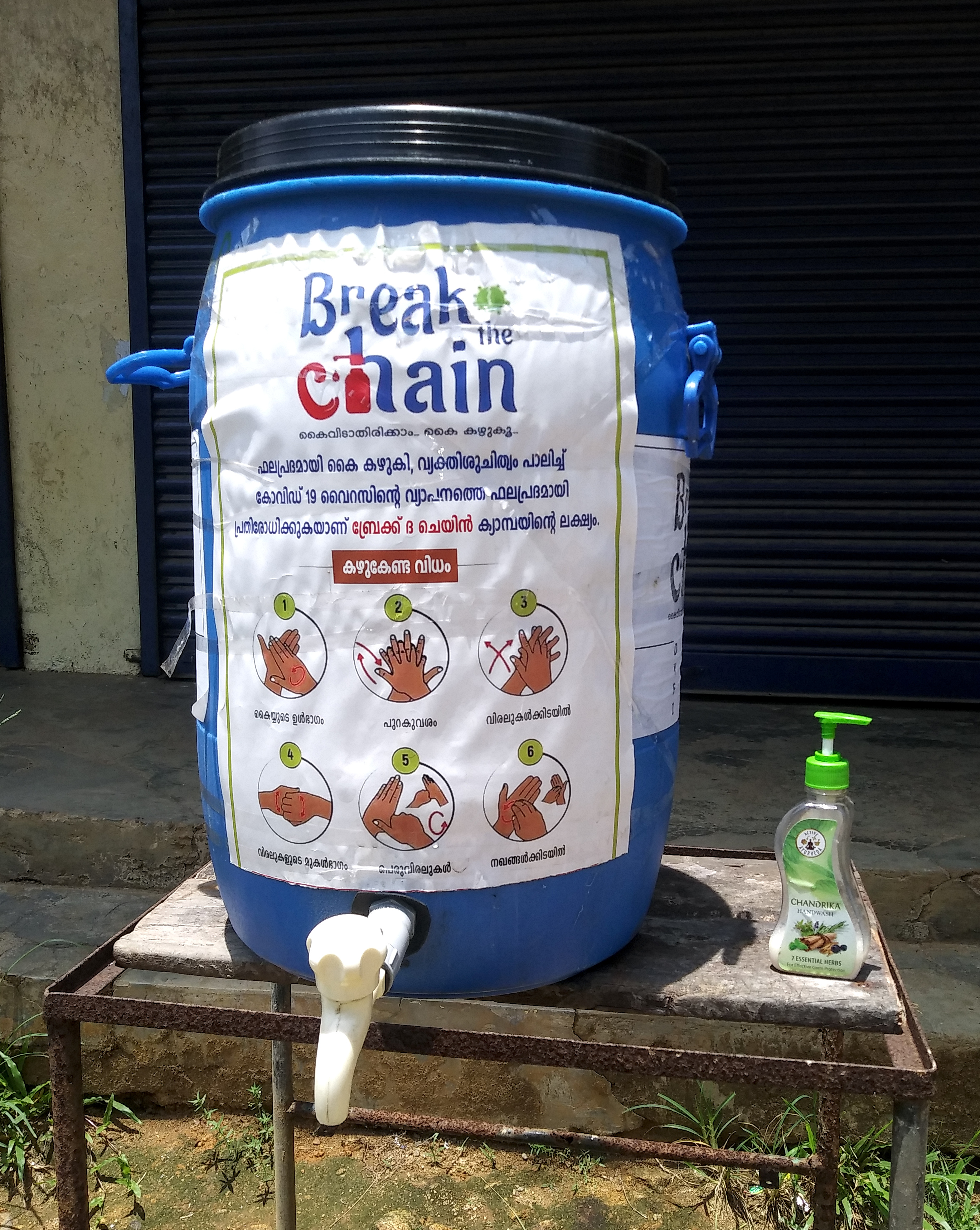 Water and soap installed by DYFI in Main Eastern Highway, as part of Break the chain campaign of Kerala government during 2020 coronavirus pandemic in Kerala lockdown. Direction of proper hand-washing steps also given. Photographed from SRV junction, Thekkethukavala near Ponkunnam.